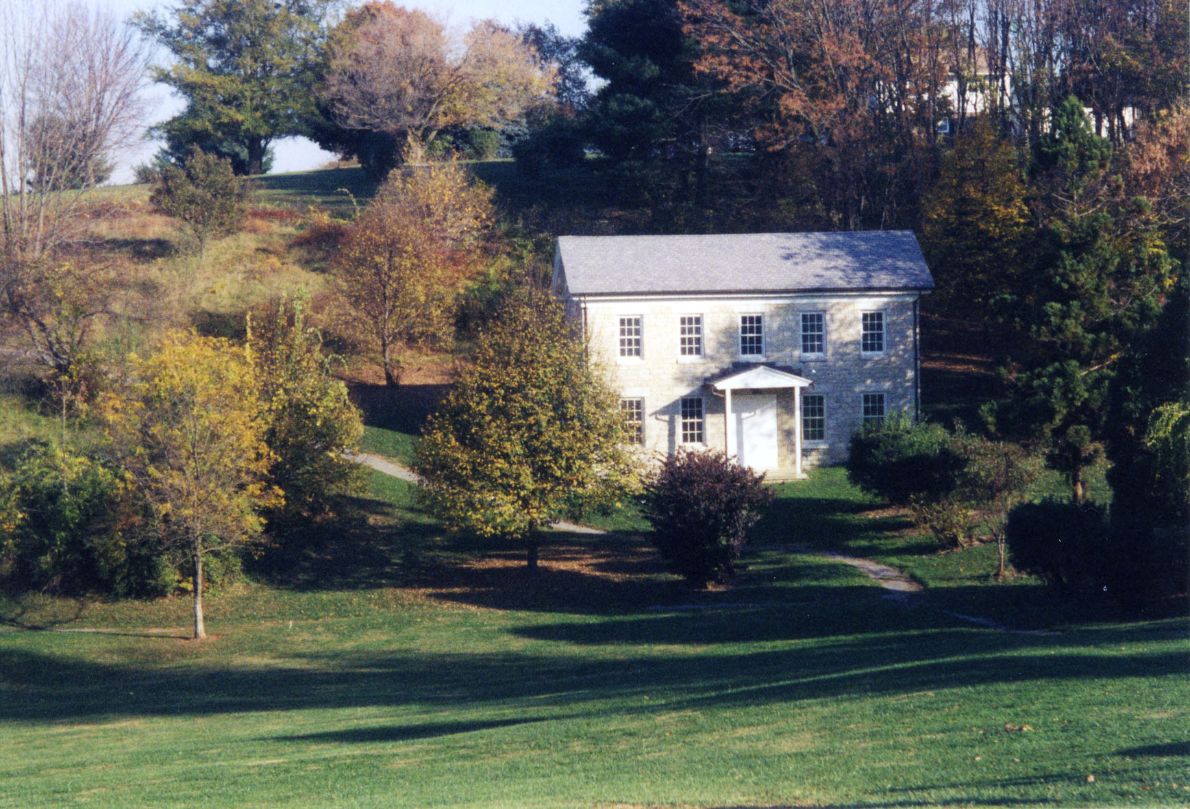 The Pest House (meaning Pestilence), in Baltimore County's County Home Park, Cockeysville, MD. Built shortly after completion of the 3rd and last Baltimore County Almshouse to serve its residents and inmates.